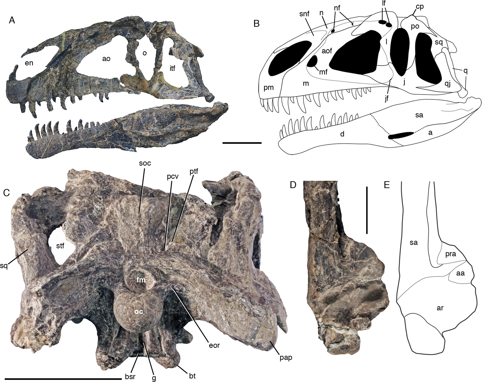 Cranial anatomy of Asfaltovenator vialidadi, MPEF PV 3440. (A) composite reconstruction of the skull and lower jaws, based on disarticulated cranial elements. (B), graphic reconstruction of articulated skull. (C), braincase in occipital view. (D,E) posterior end of left mandible in dorsal view; (D) photo; (E) outline drawing. Abbreviations: a, angular; aa, antarticular; ao, antorbital fenestra; aof, antorbital fossa; ar, articular; bsr, basisphenoid recess; bt, basal tubera; cp, cornual process; d, dentary; en, external nares; eor, exoccipital ridge; fm, foramen magnum; g, groove; itf, infratemporal fenestra; j, jugal; jf, jugal foramen; l, lacrimal; lf, lacrimal fenestrae; m, maxilla; mf, maxillary fenestra; n, nasal; nf, nasal foramina; o, orbit; oc, occipital condyle; pap, paroccipital process; pcf, posterior exit of mid-cerebral vein; pm, premaxilla; po, postorbital; pra, prearticular; ptf, posttemporal foramen; q, quadrate; qj, quadratojugal; sa, surangular; snf, supranarial fossa; soc, supraoccipital; sq, squamosal; stf, supratemporal fenestra. Scale bars are 10 cm (A–C) and 5 cm (D,E).